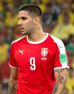 Serbian footballer Aleksandar Mitrović on 27 June 2018, during the 2018 FIFA World Cup group stage match between Serbia and Brazil.